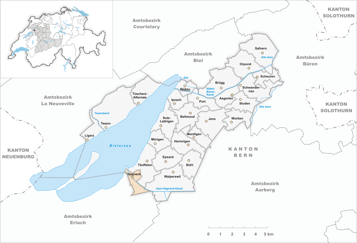 Municipality Hagneck